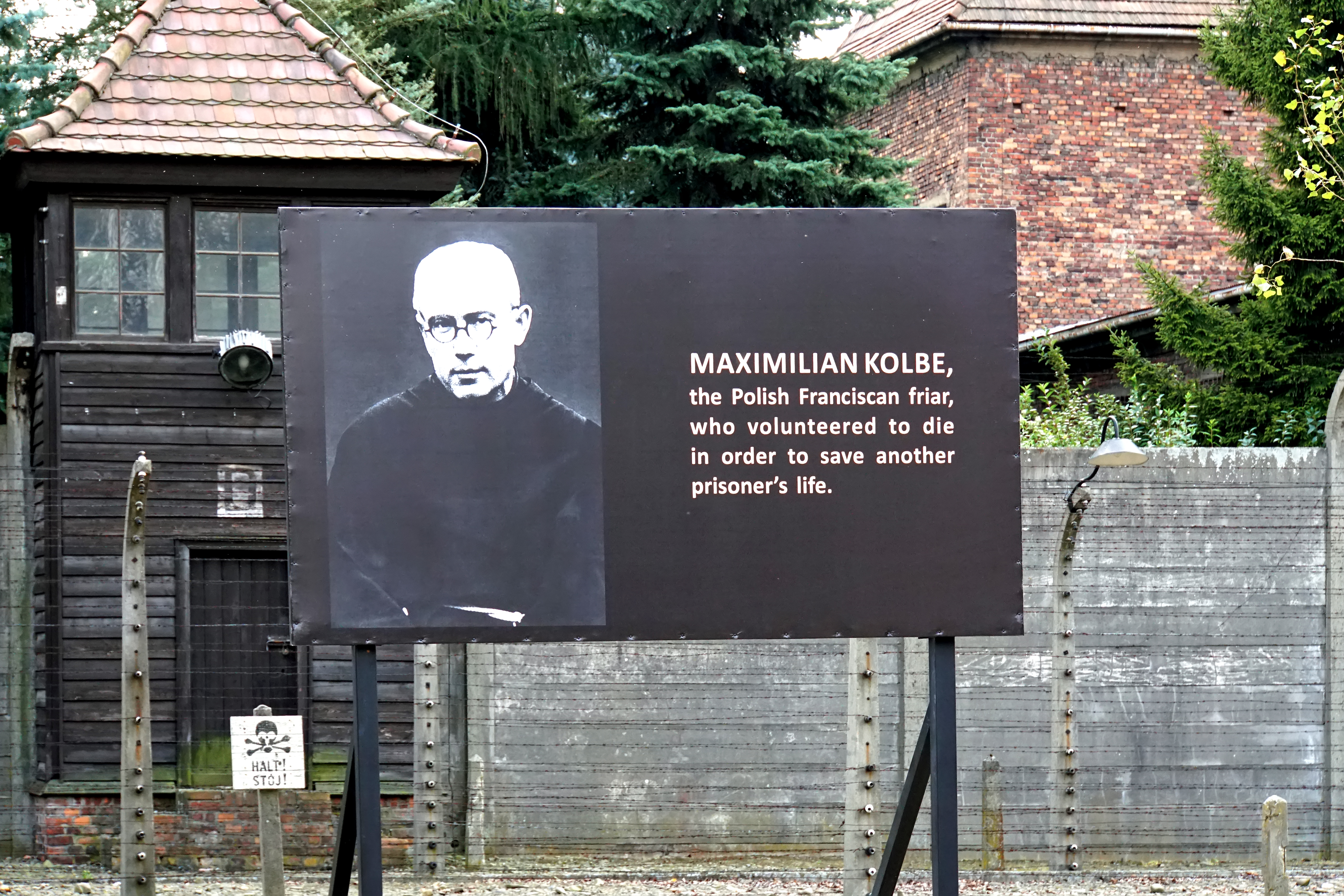 PLEASE, NO invitations or self promotions, THEY WILL BE DELETED. My photos are FREE to use, just give me credit and it would be nice if you let me know, thanks. "No great love has a man then to lay down his life for a friend". Maximilian Maria Kolbe, (8 January 1894 – 14 August 1941) was a Polish Conventual Franciscan friar, who volunteered to die in place of a stranger in the German death camp of Auschwitz. Kolbe was canonized on 10 October 1982 by Pope John Paul II, and declared a martyr of charity. Father Kolbe was taken out of his cell after three weeks and given a more merciful death by an injection to the heart. Father Kolbe was arrested by the Gestapo on February 17, 1941 because he had hidden 2,000 Jews in his friary and because he broadcast reports over the radio condemning Nazi activities during World War II. On May 25, 1941, he was sent to the main Auschwitz camp as a political prisoner.